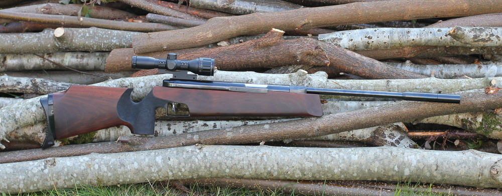 Spring piston sidelever air rifle.